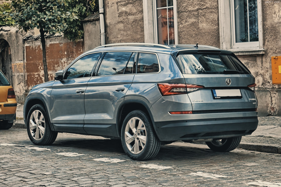 Škoda Kodiaq